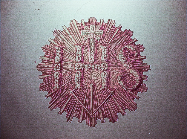 Jesuitinas One version of the Jesuit emblem (IHS from the first three letters of the Greek name of Jesus).